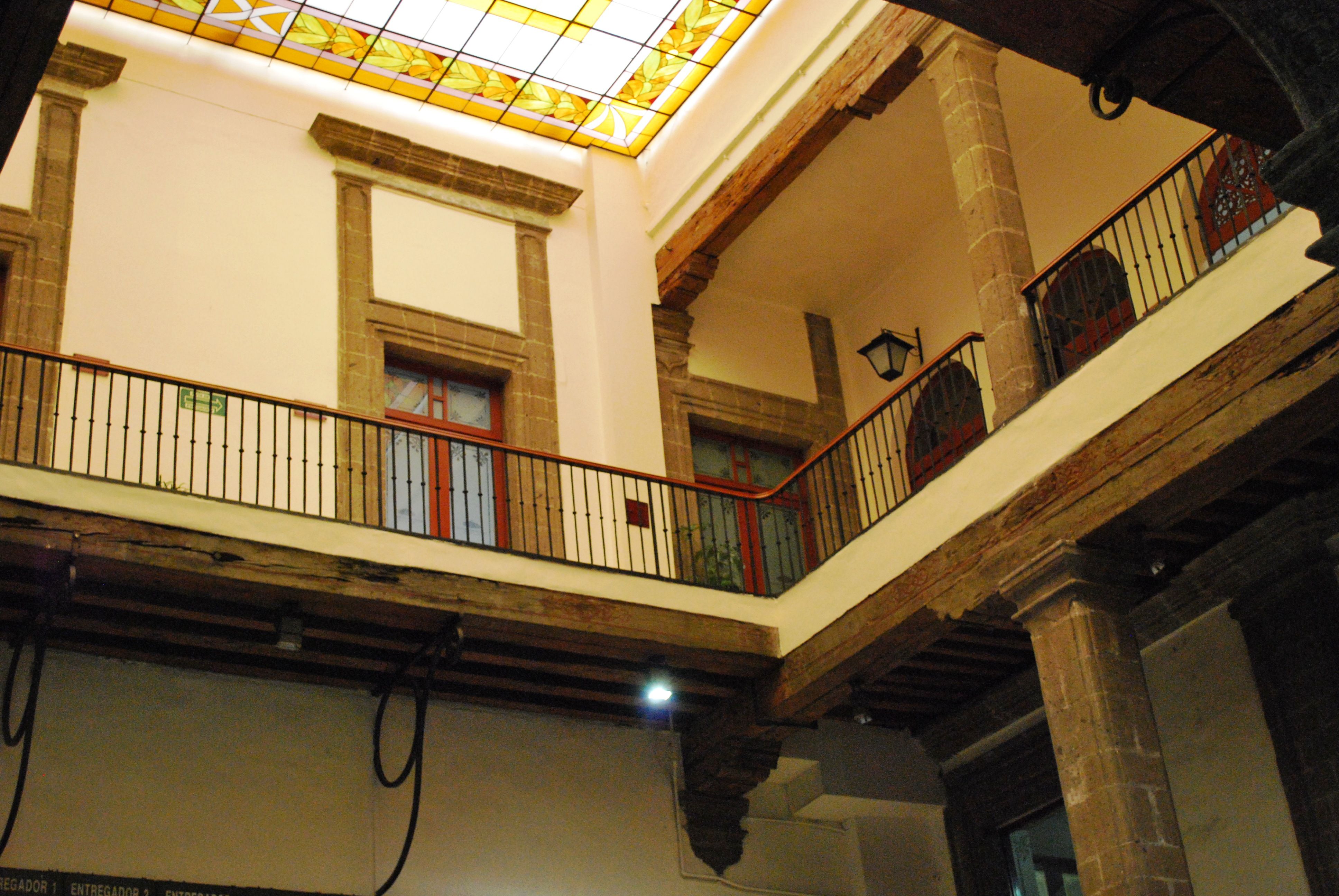 One of the rooms in the Nacional Monte de Pieded building located just off the main square in Mexico City